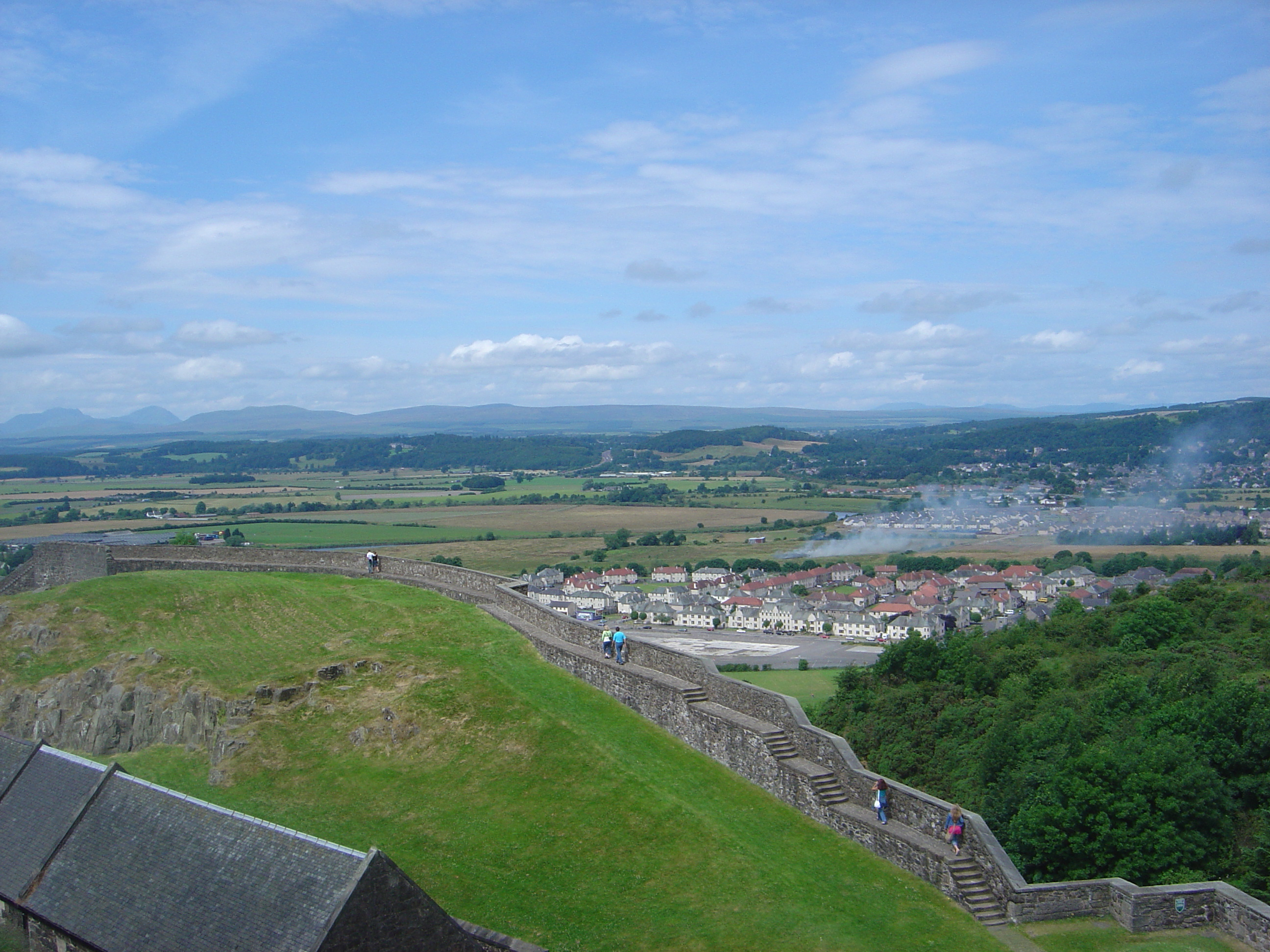 The outer bailey and castle walls of Stirling Castle in Stirling, Scotland, seen from the inner bailey. The Raploch district of Stirling is visible beyond the wall. Beyond that lie Bridge of Allan and the Carse of Stirling, with the Trossachs mountains (the southern extent of the Scottish Highlands) on the horizon.